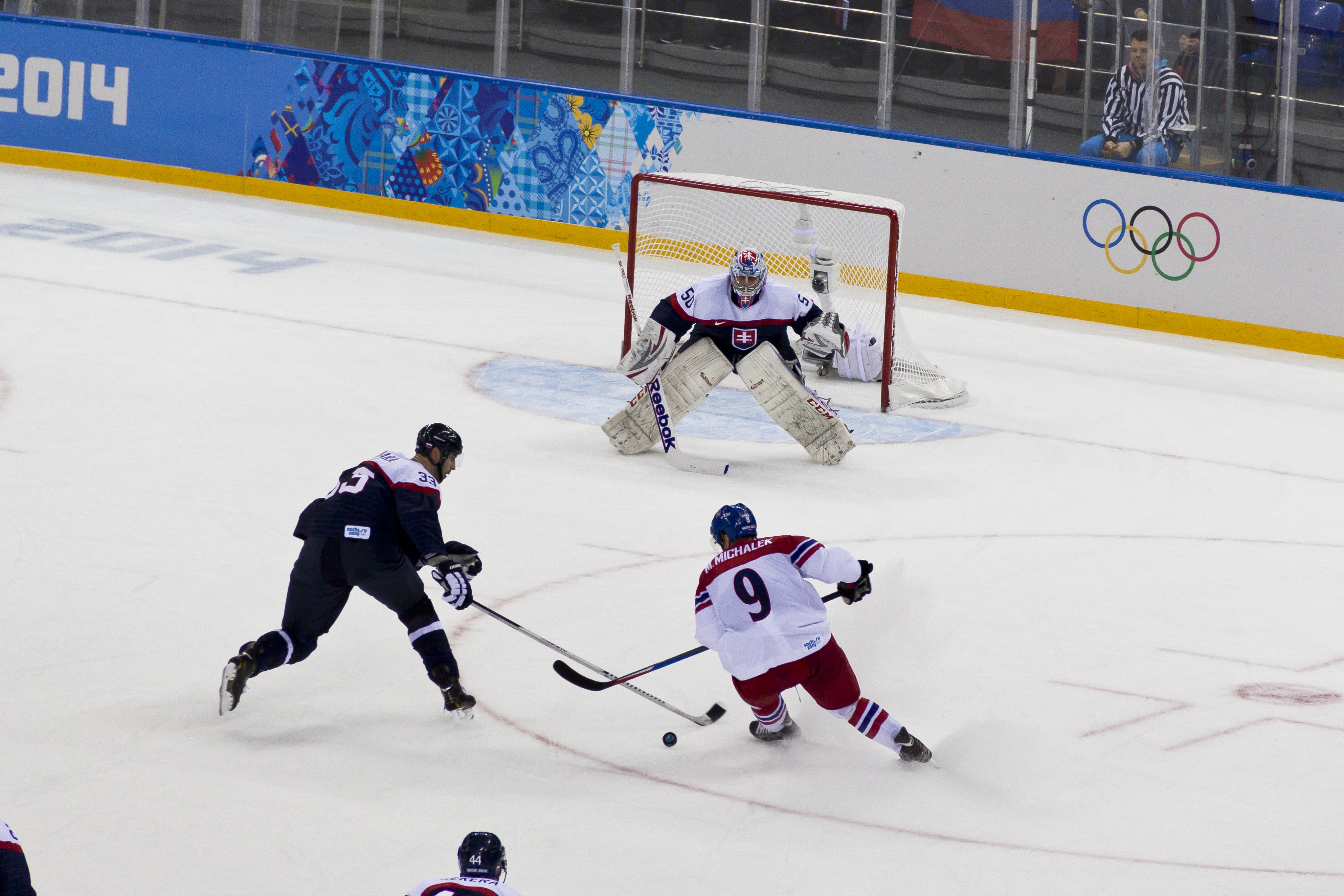 Ice hockey at the 2014 Winter Olympics – Men's tournament Czech Republic vs Slovakia